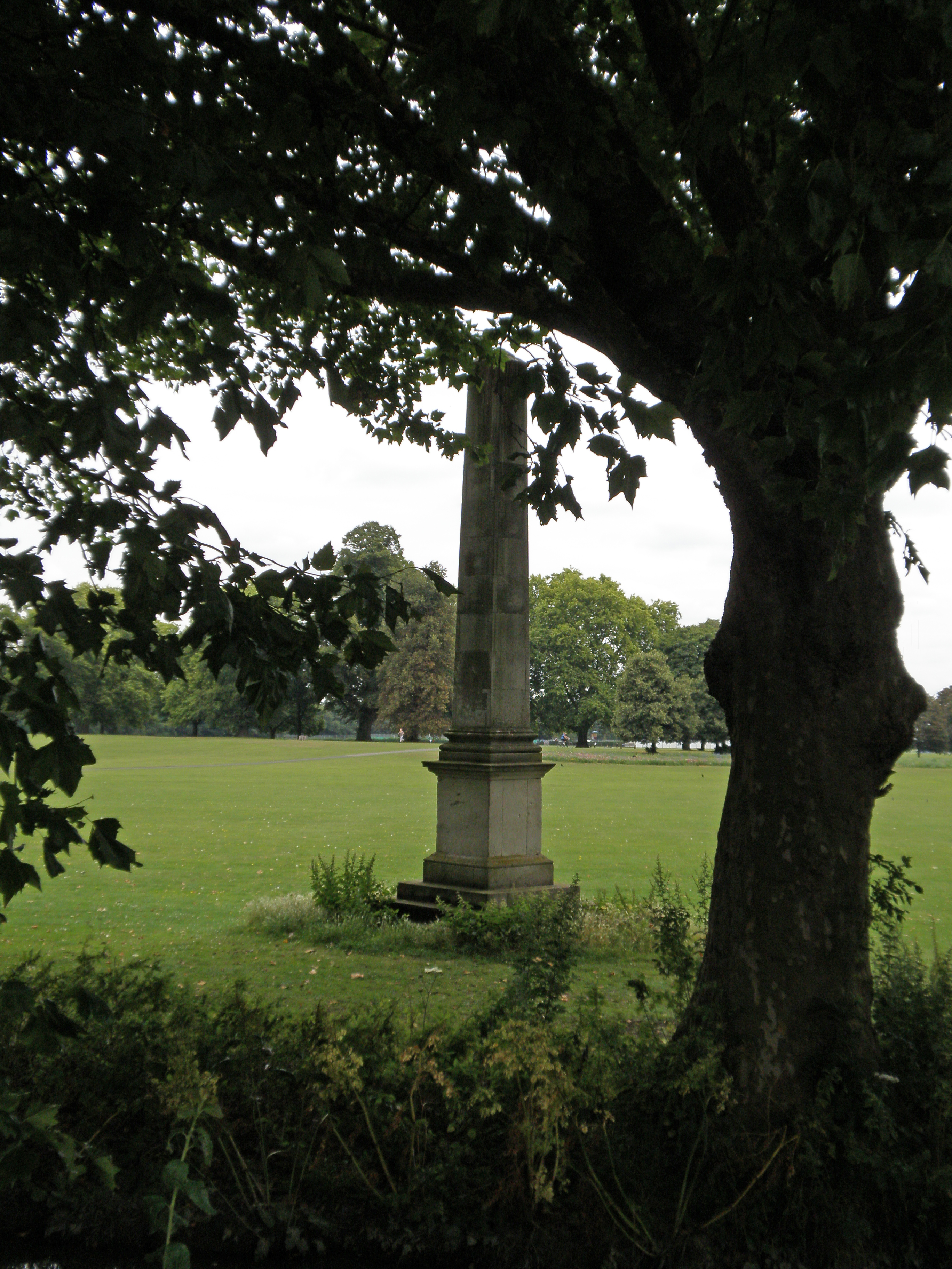 one of the obelisks in Richmond Deer ark associated with Kew Observatory Richmond